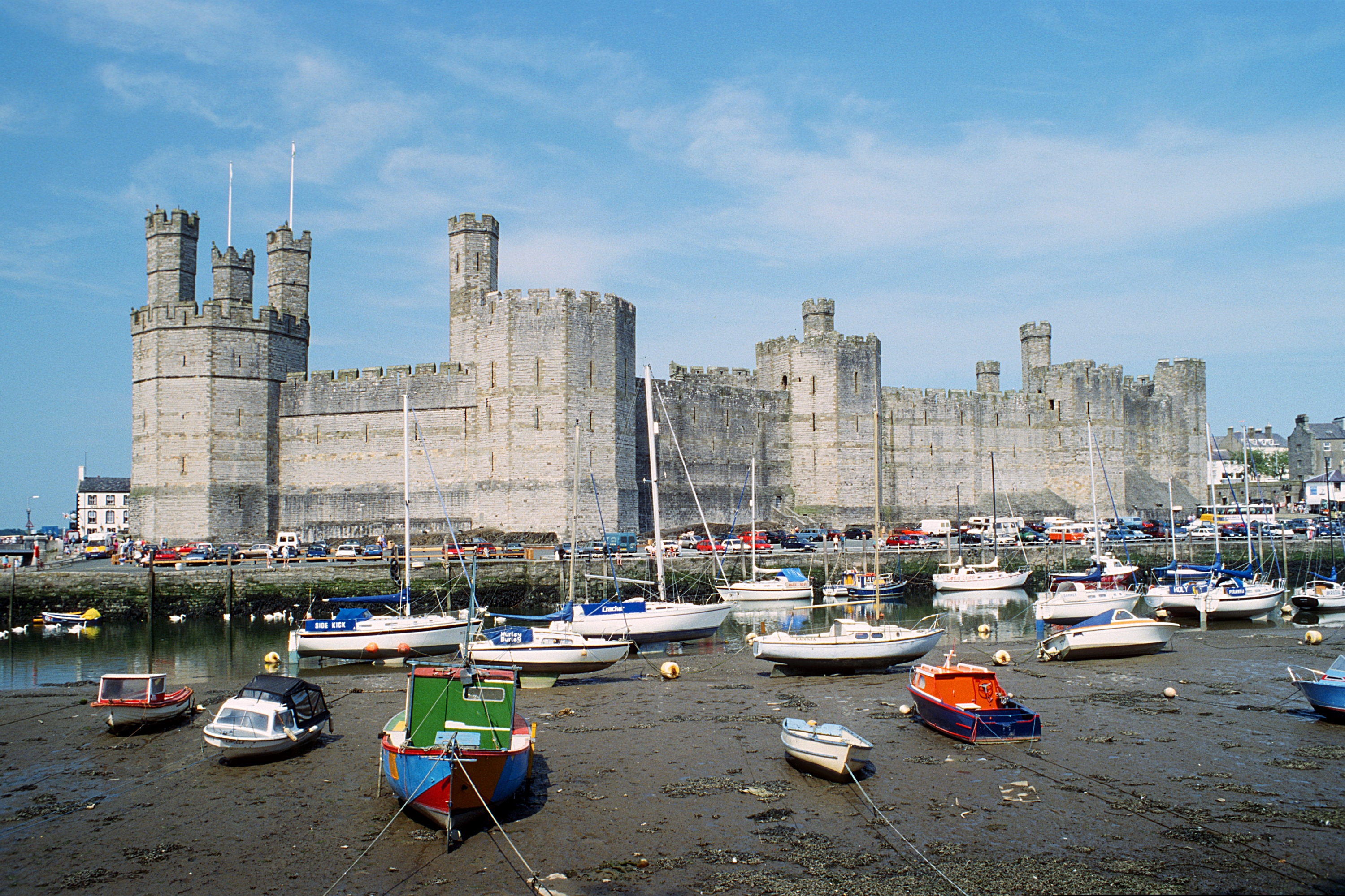 Caernarfon Castle, western view at low tide